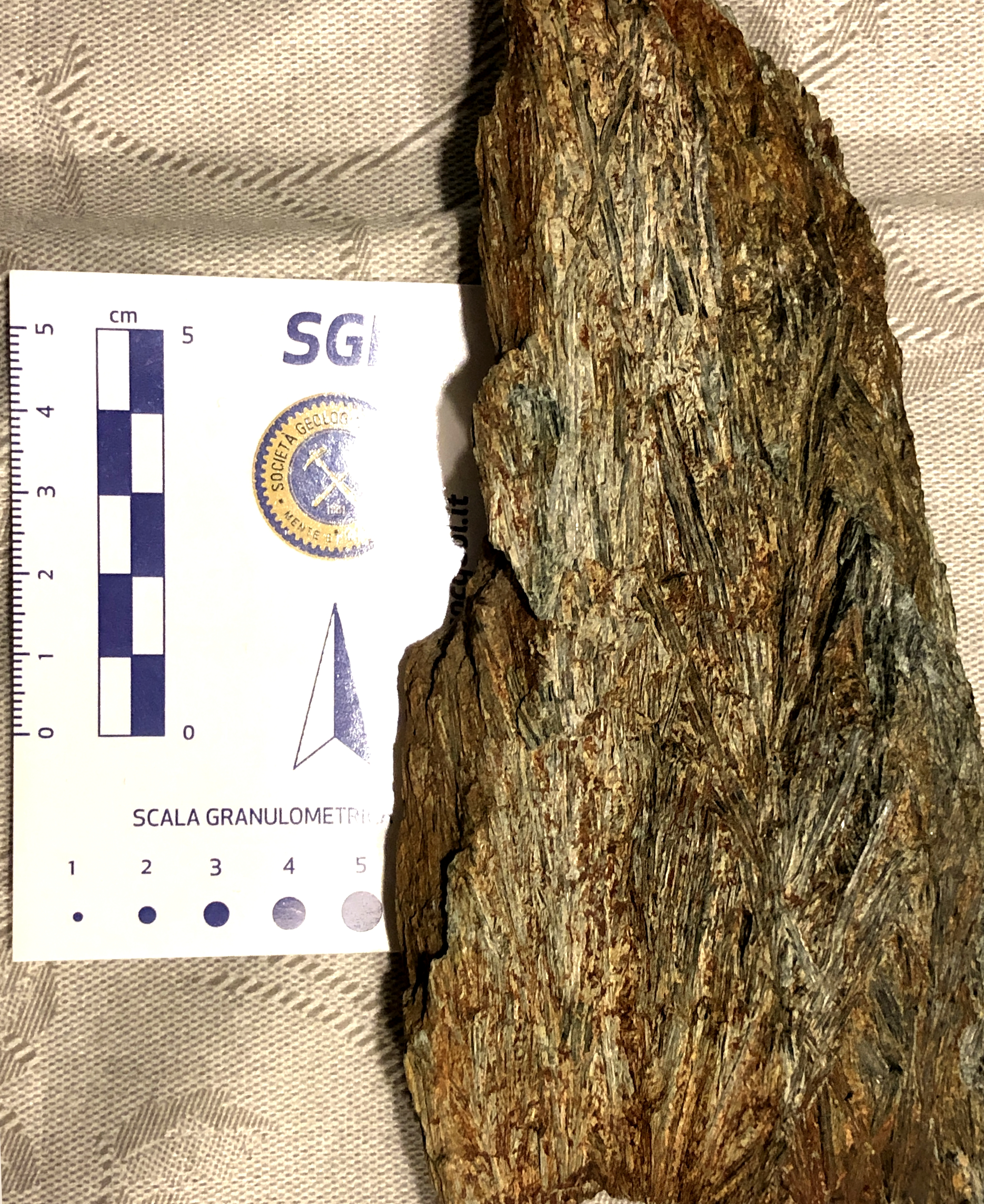 Komatiite from its type locality (Komati River in South Africa)